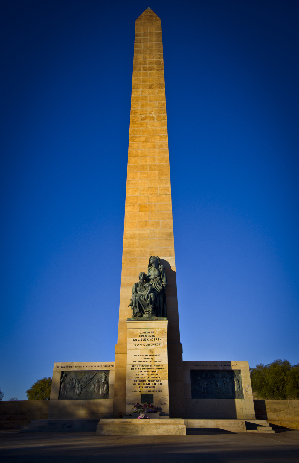 "This oblisk of 36,5 metres high was built of Kroonstad sandstone in memory of the 26 370 Boer women and children who died during the Anglo Boer War(1899 -1902). It was unveiled on 16 December 1913." This media shows a South African Protected Site with SAHRA file reference 9/2/302/0045.